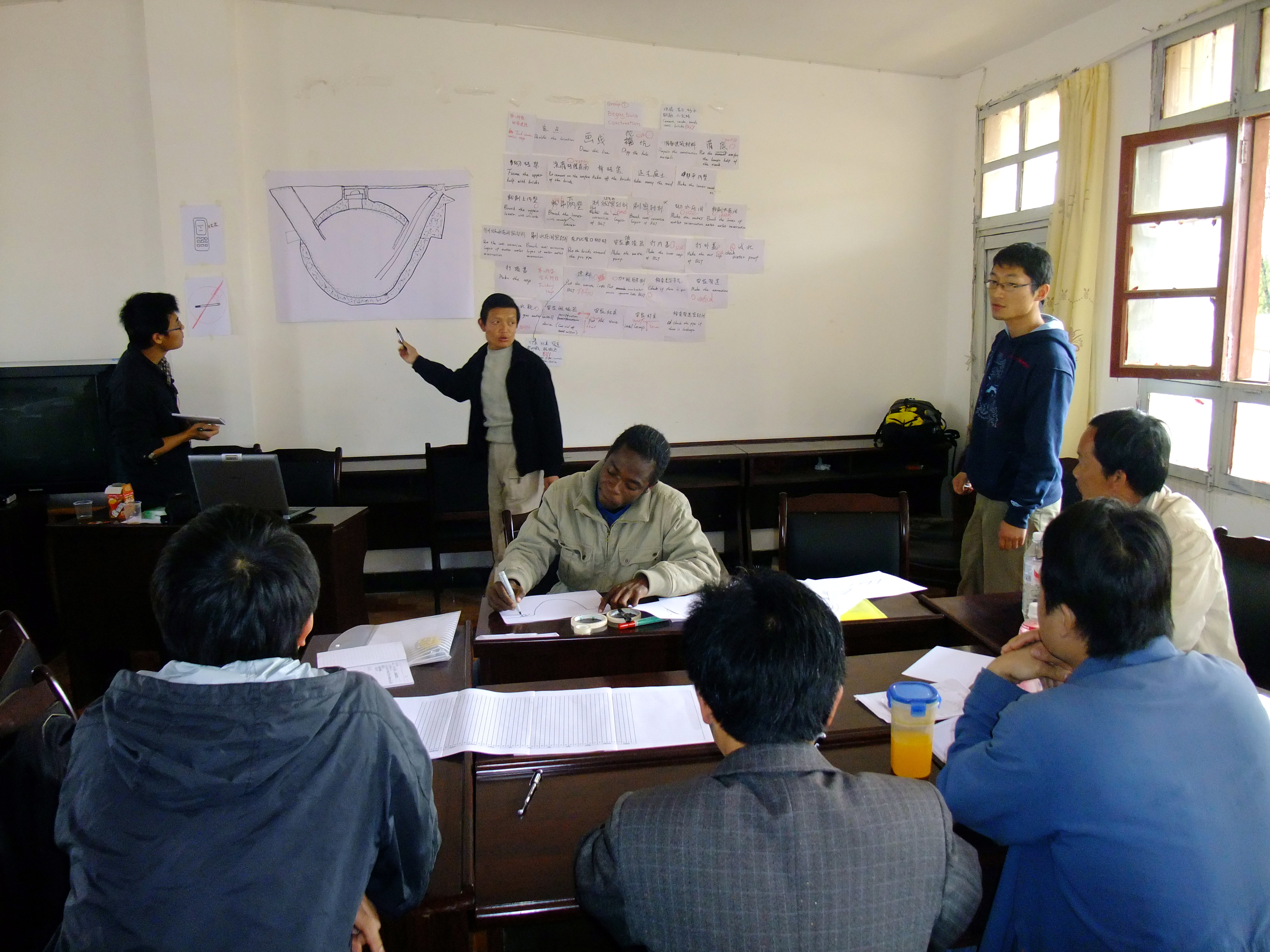 Biogas formation